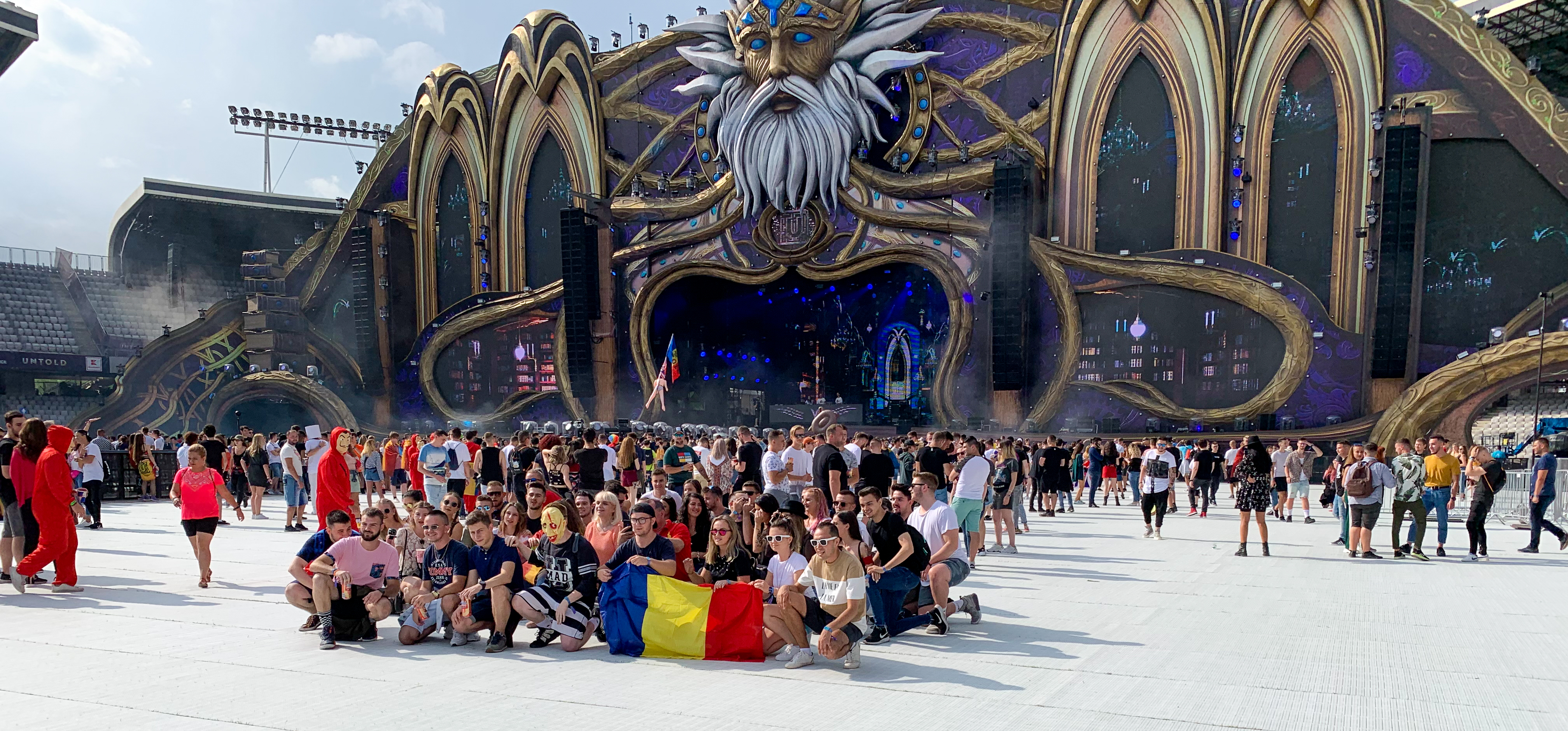 The fans of UNTOLD Festival holding the Romanian flag.